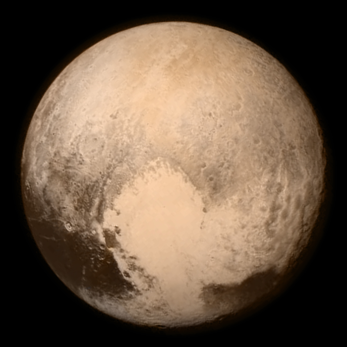 Pluto photographed by the LORRI and Ralph instruments aboard the New Horizons spacecraft